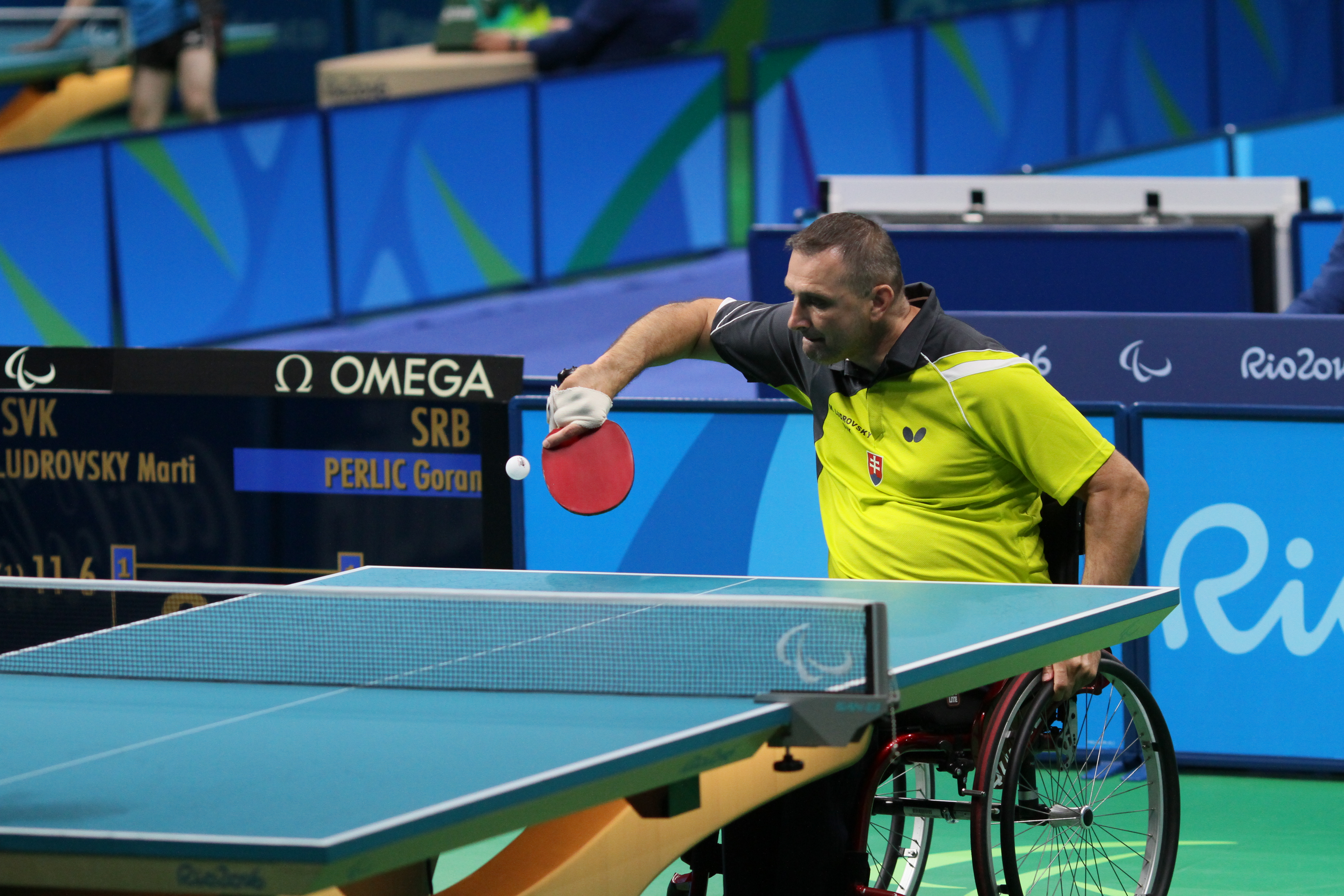 LUDROVSKY Martin (SVK,M2) IMG_5213